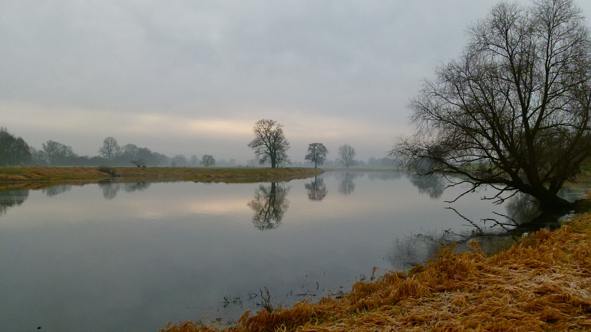 "Aland-Elbe-Niederung" nature reserve in winter, district of Stendal, Saxony-Anhalt, Germany